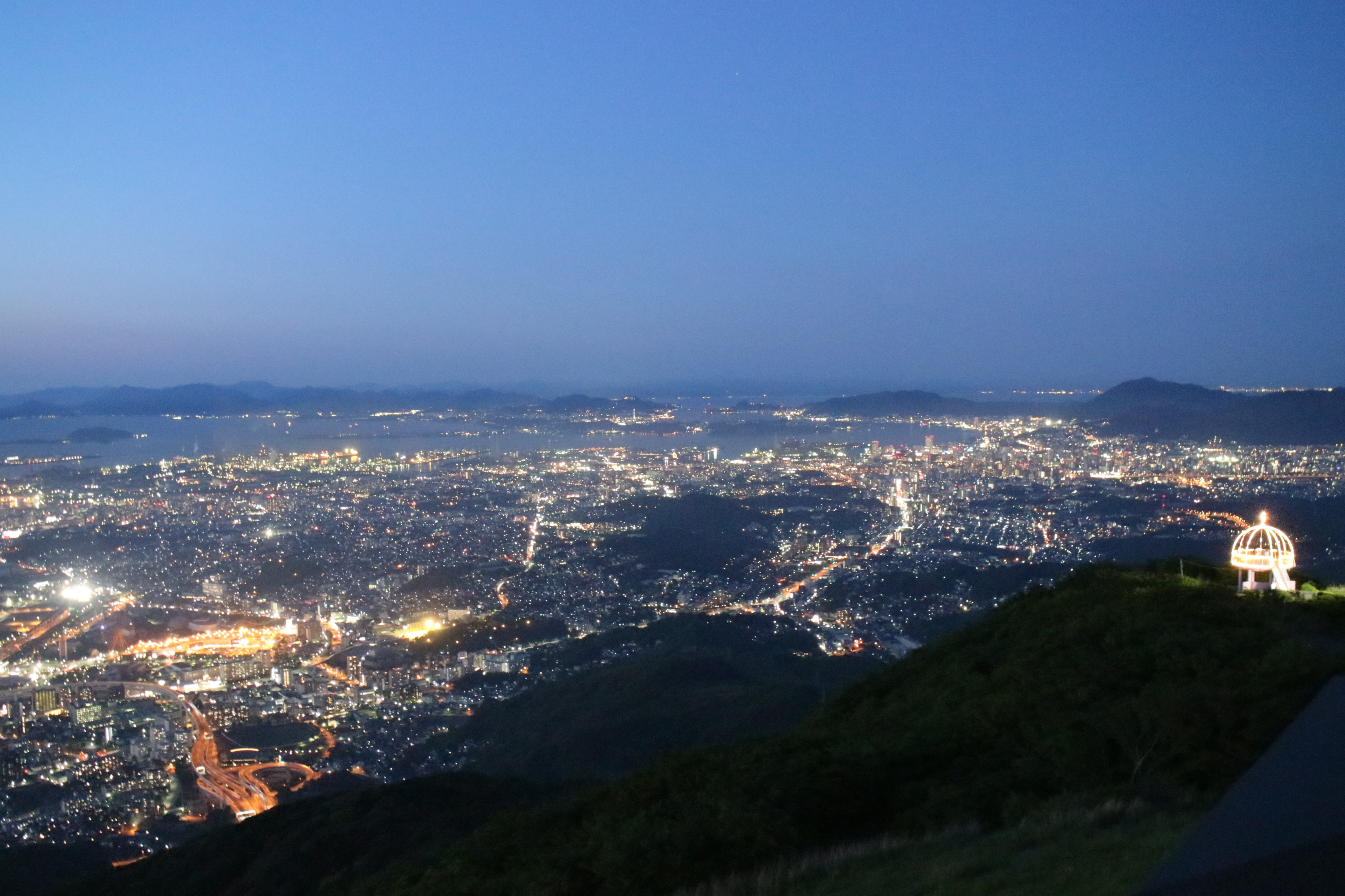 Night Views from Mount Sarakura